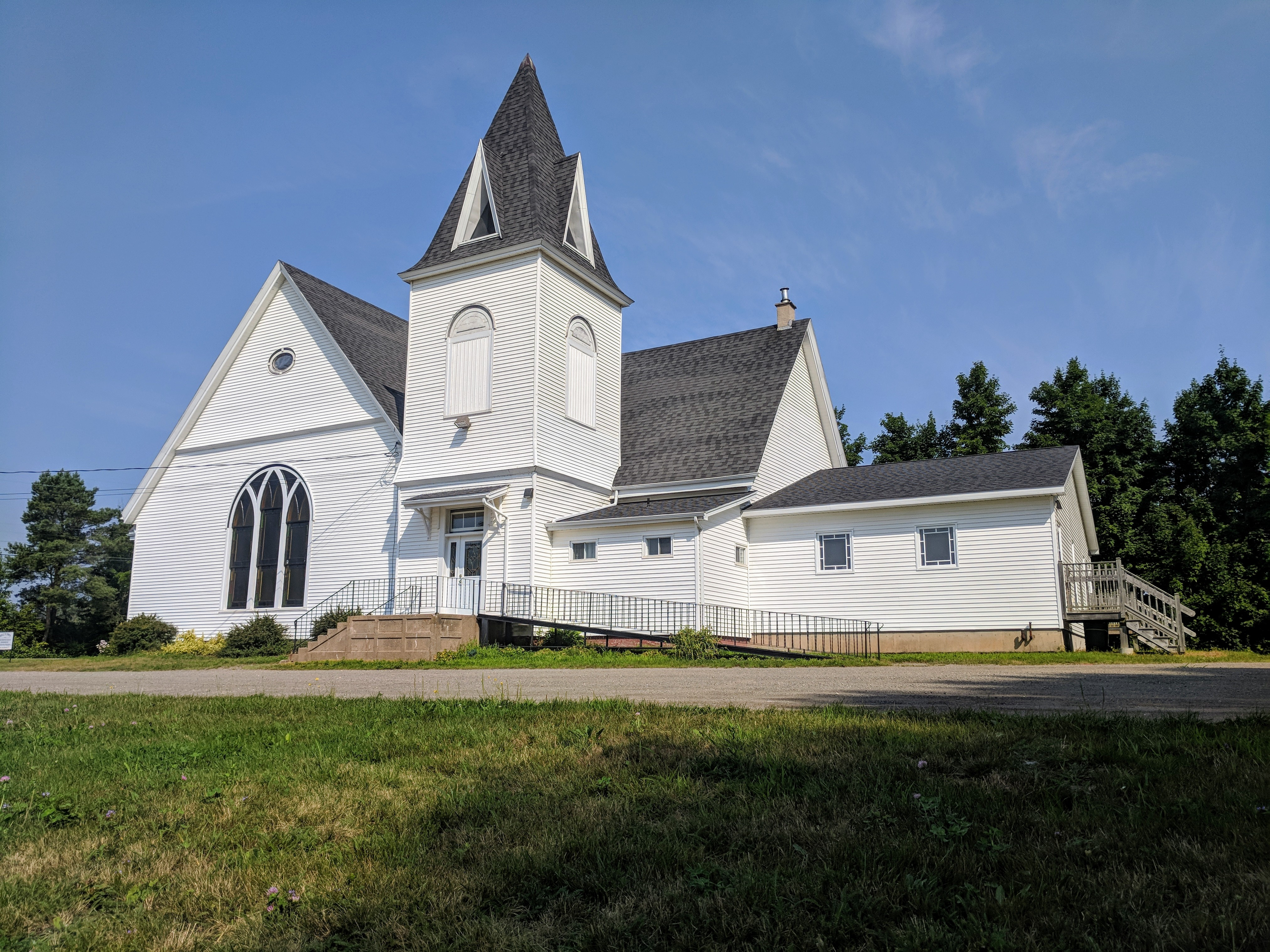 The Billtown United Baptist Church as constructed in 1903 taken from the graveyard. Green lawns. Gravel driveway.